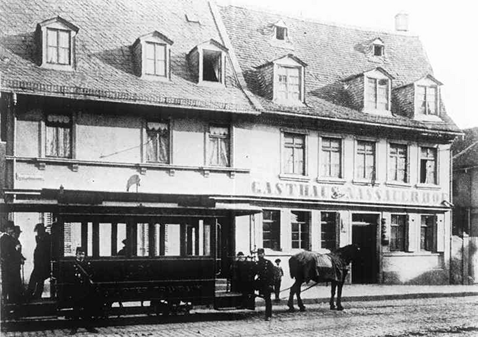 Horsecar of the Frankfurter Trambahn-Gesellschaft (FTG) in Frankfurt am Main-Bornheim, at the stop "Bornheim Schule" at the "Hoher Brunnen" before the "Nassauer Hof" (today: "Solzer"), after October 24th, 1881